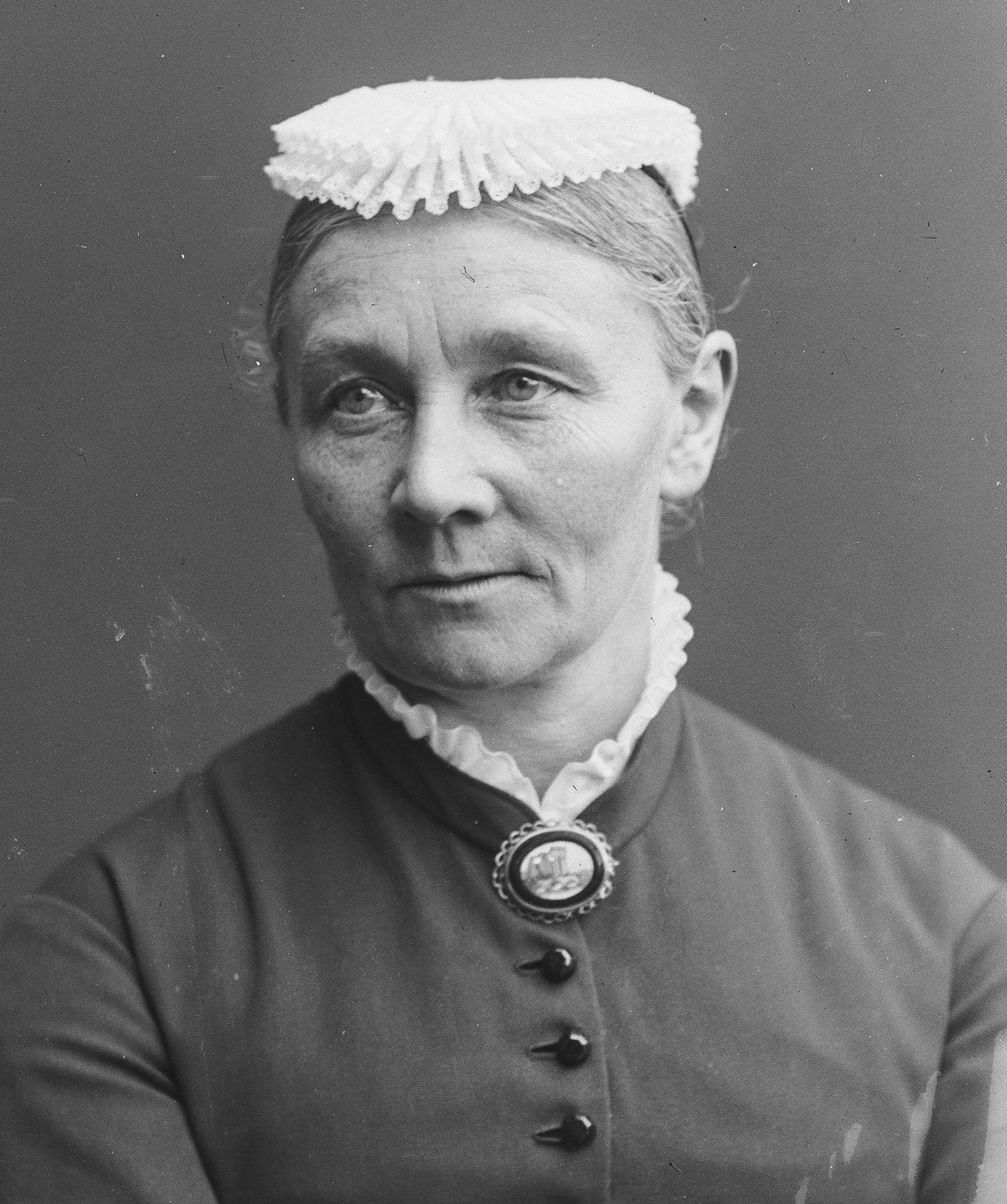 Swedish nurse and teacher Emmy Rappe (1835-1896)